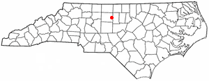 Category:North Carolina Dot Maps